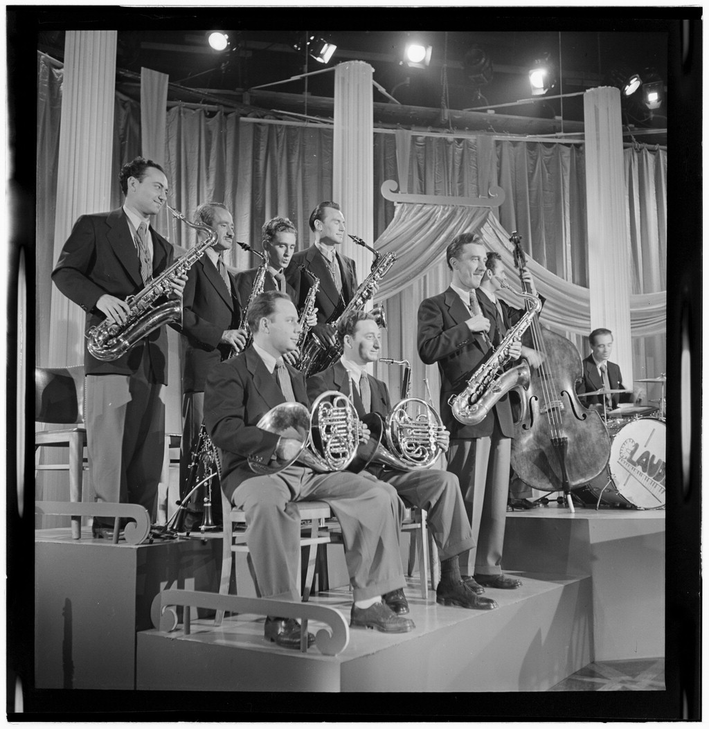 Gottlieb, William P., 1917-, photographer. [Portrait of Sandy Siegelstien, Willie Wechsler, Micky Folus, Joe Shulman, Billy Exiner, Mario Rullo, Danny Polo, Lee Konitz, and Bill Bushing, Columbia Pictures studio, the making of Beautiful Doll, New York, N.Y., ca. Sept. 1947] 1 negative : b&w ; 2 1/4 x 2 1/4 in. Caption from Down Beat: Left to right among the Thornhill men, front row; Sandy Siegelstien, Willie Wechsler, Micky Folus, Joe Shulman, bass, and Billy Exiner, drums. Back row, in the usual order: Mario Rullo, Danny Polo, Lee Konitz, Bill Bushing. Notes: Gottlieb Collection Assignment No. 316 Reference print available in Music Division, Library of Congress. Purchase William P. Gottlieb Forms part of: William P. Gottlieb Collection (Library of Congress). In: "Thornhill, McKinley are superb; Auld's new 9-pc. band answer to bad biz," Down Beat, v. 14, no. 20 (Sept. 24, 1947), p. 3. Subjects: Siegelstien, Sandy Wechsler, Willie Folus, Micky Shulman, Joe Exiner, Billy Rullo, Mario Polo, Danny Konitz, Lee Bushing, Bill Claude Thornhill Orchestra Jazz musicians--1940-1950. Big bands--1940-1950. Columbia Pictures studio Format: Portrait photographs--1940-1950. Group portraits--1940-1950. Film negatives--1940-1950. Rights Info: Mr. Gottlieb has dedicated these works to the public domain, but rights of privacy and publicity may apply. Repository: (negative) Library of Congress, Prints & Photographs Division, Washington D.C. 20540 USA, (reference print) Library of Congress, Music Division, Washington D.C. 20540 USA, Part Of: William P. Gottlieb Collection (DLC) 99-401005 General information about the Gottlieb Collection is available at Persistent URL: Call Number: LC-GLB23- 0854